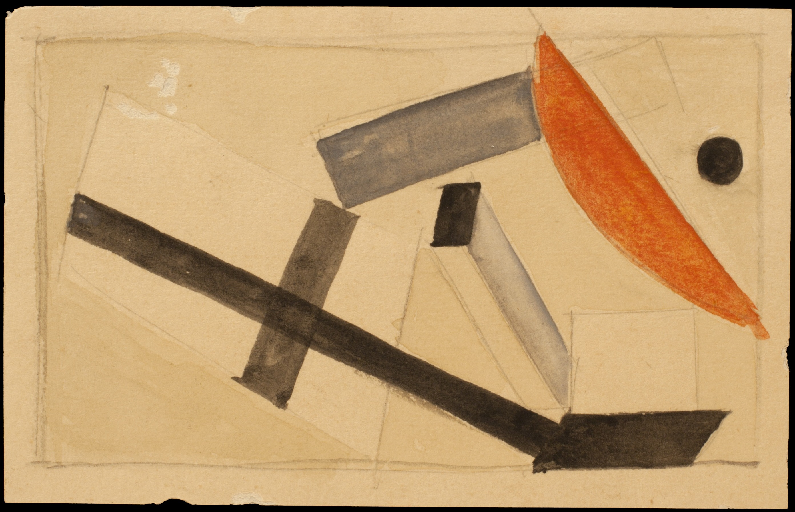 "Proun," El Lissitzky,1924